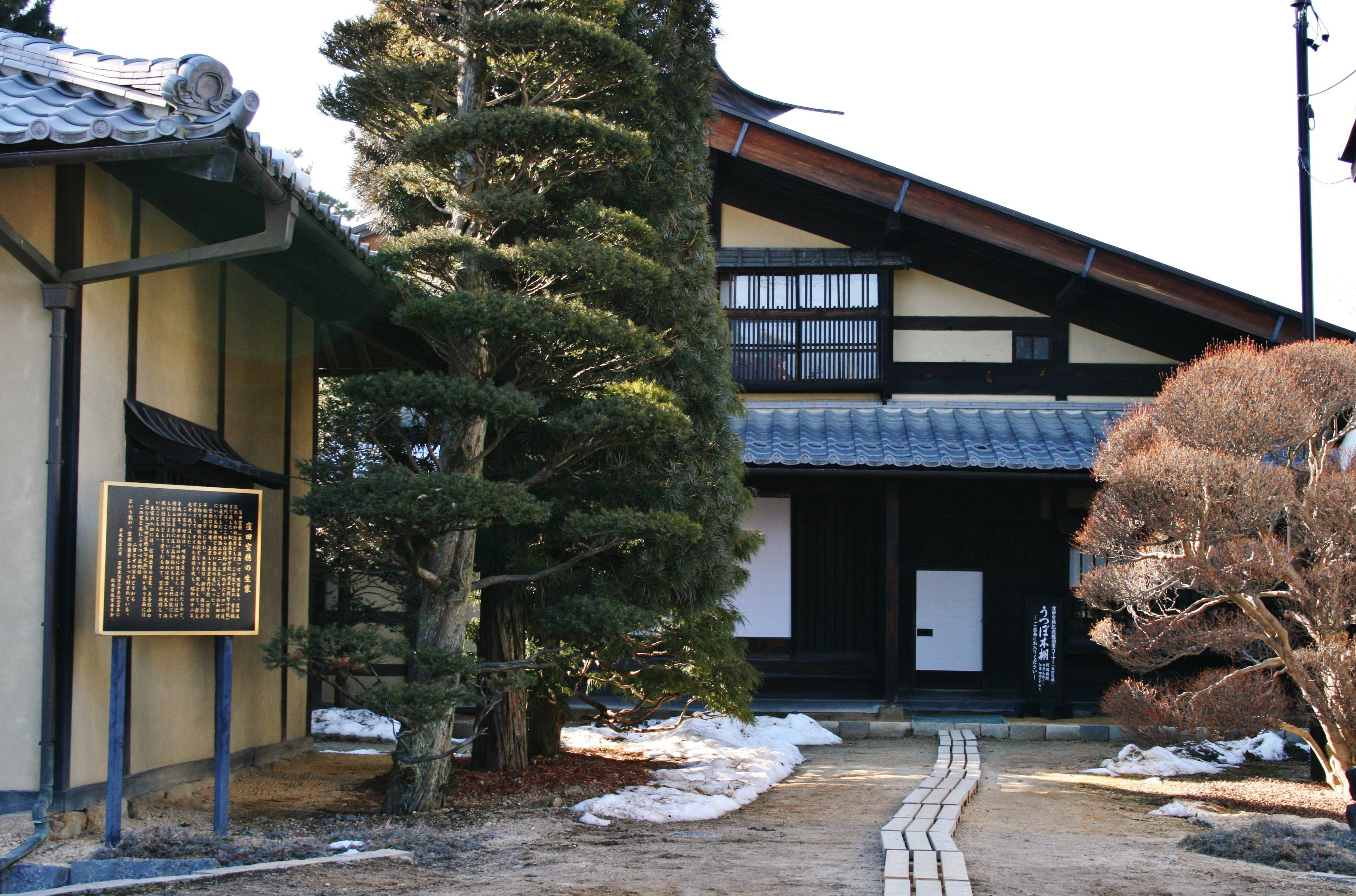 Kubota Utsubo's birthplace (Utsubo Kubota Memorial).